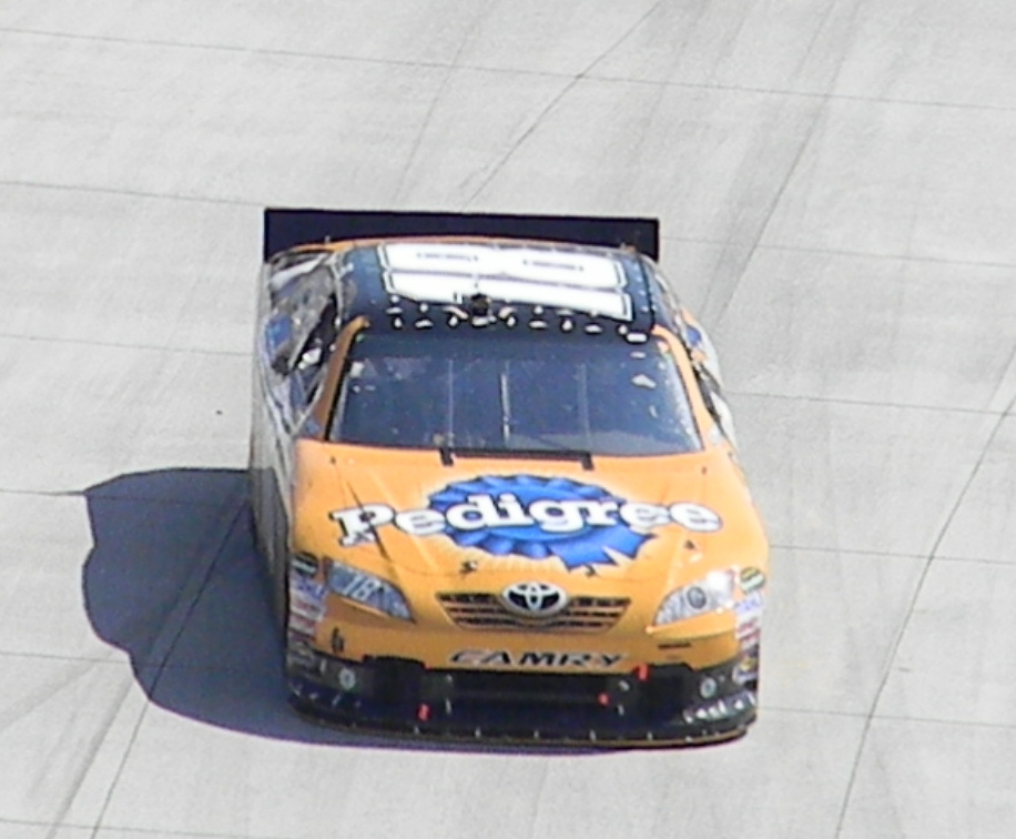 Kyle Busch during the 2011 Goody's Fast Pain Relief 500 at Martinsvile Speedway on April 3, 2011.